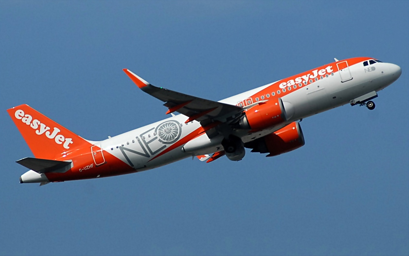 Manchester Airport (EGCC)